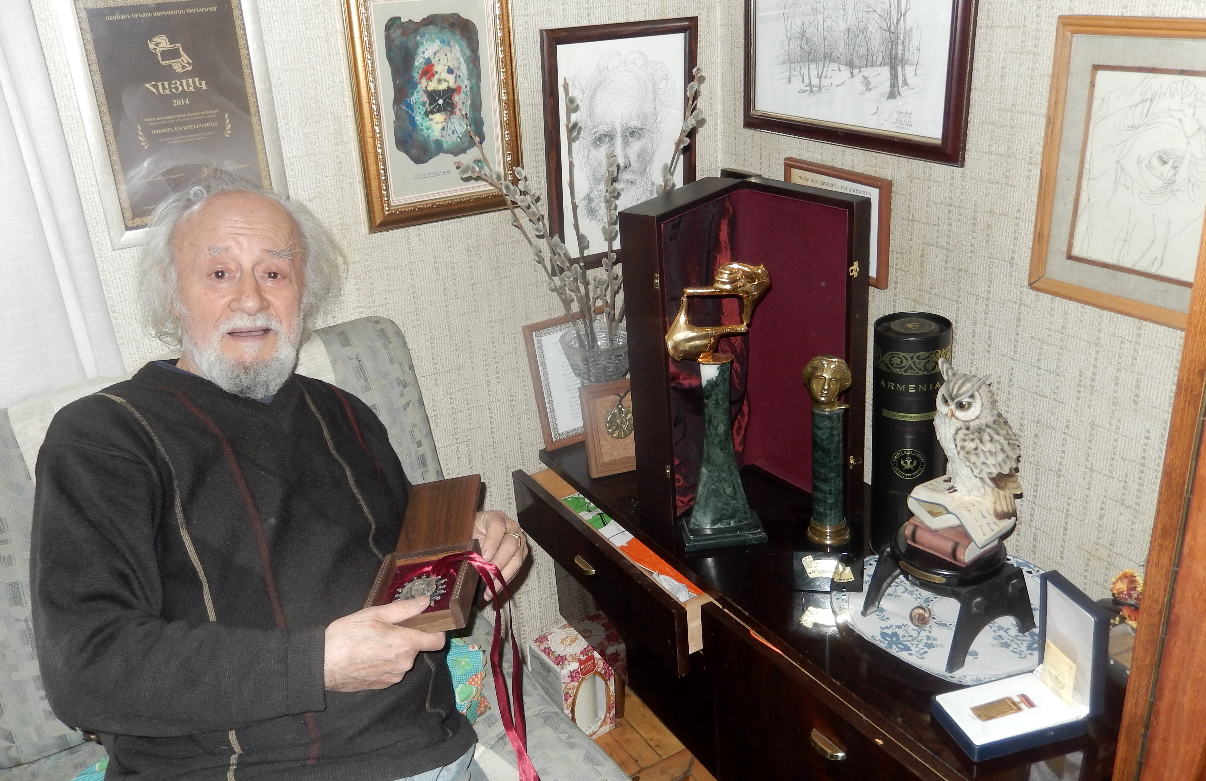 Stepan Andranikyan, medals